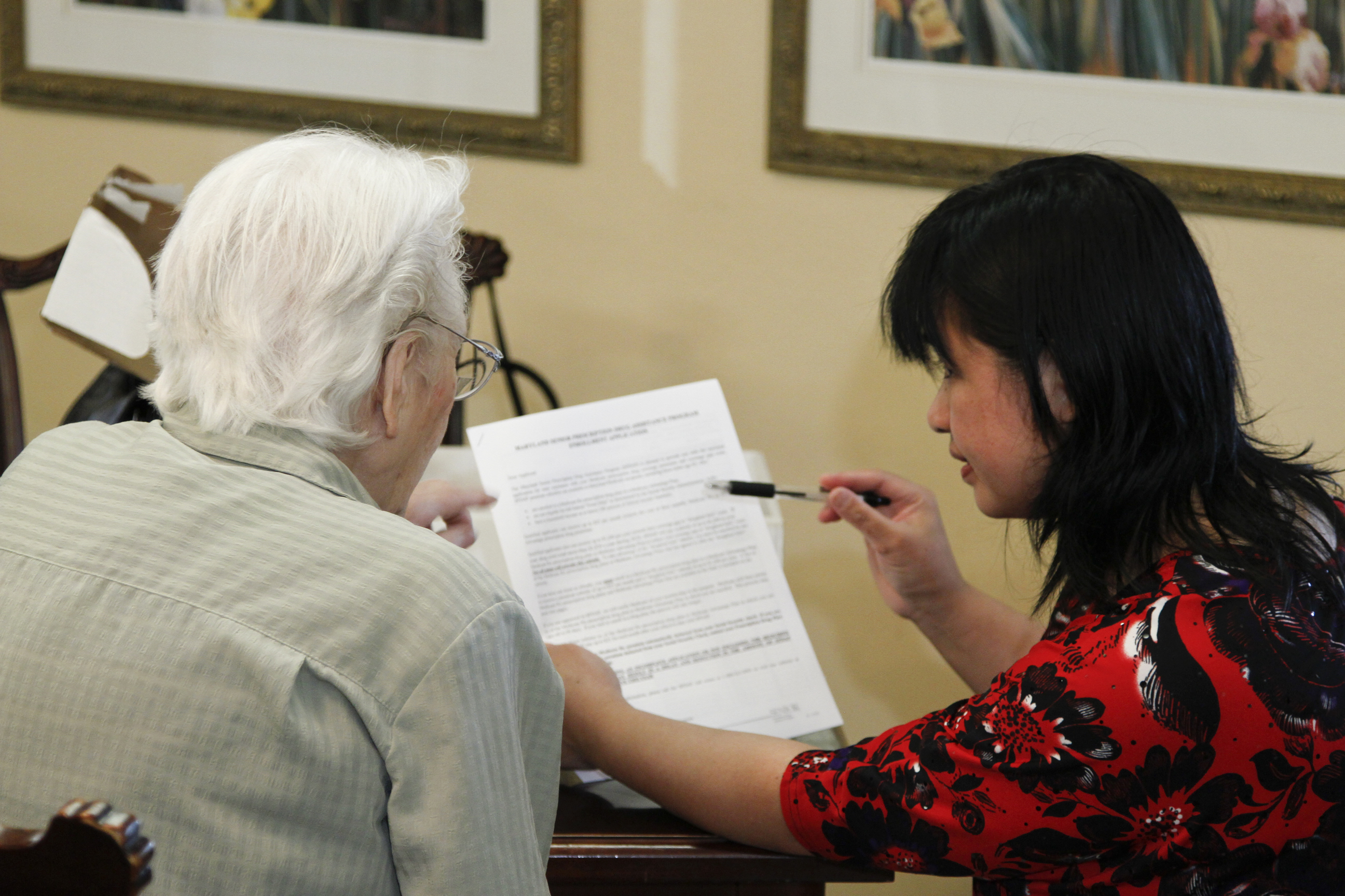 Title Woman Reading Description An Asian woman reads to older Caucasian woman at an assisted living facility. Topics/Categories People -- Adult Type Color, Photo Source National Cancer Institute